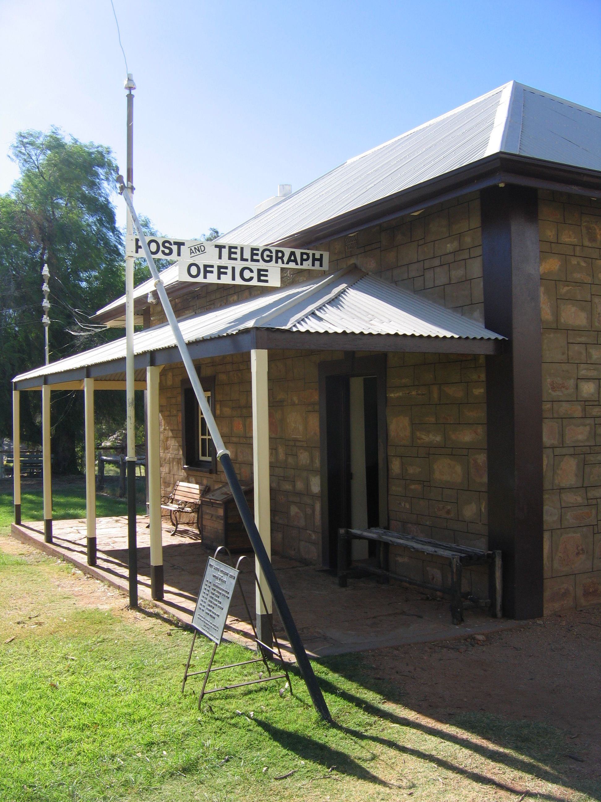 Alice Springs Telegraph Station